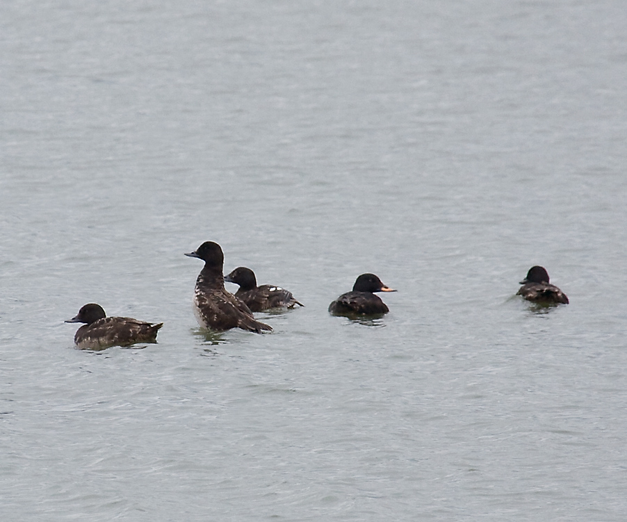 Velvet Scoter